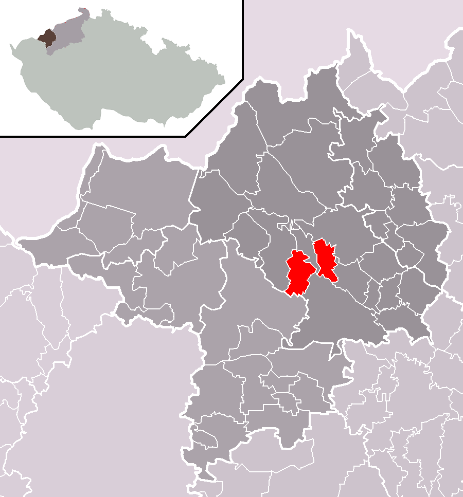 Location of Spořice municipality within Chomutov District and administrative area of Chomutov as a Municipality with Extended Competence. The municipality consists of two separate cadastral areas - Spořice proper and Krbice (a territory of former municipality nowadays occupied by a brown-coal surface mine).